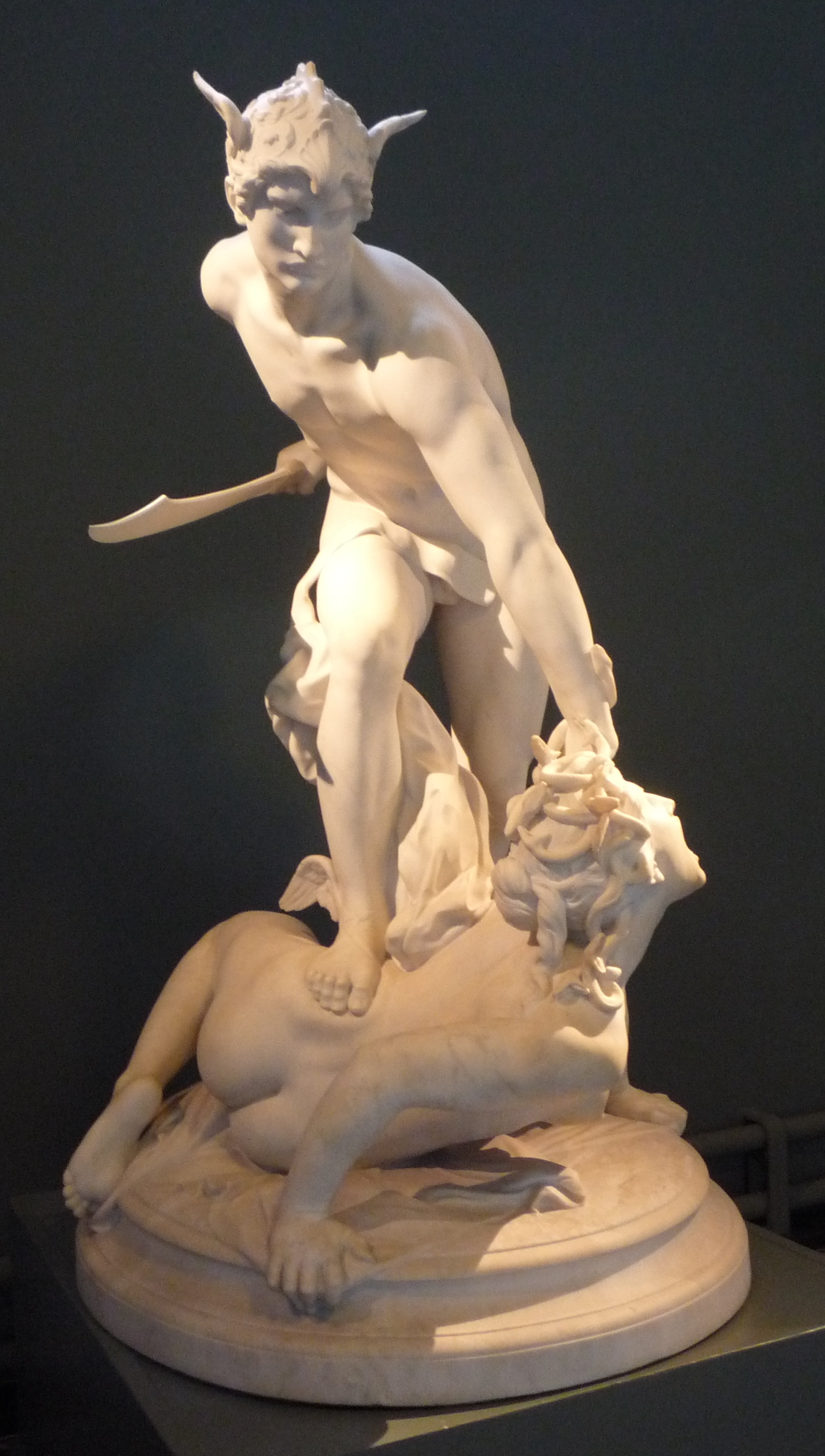 Perseus Slaying Medusa by Laurent-Honore Maqueste (1903). Ny Carlsberg Glyptotek